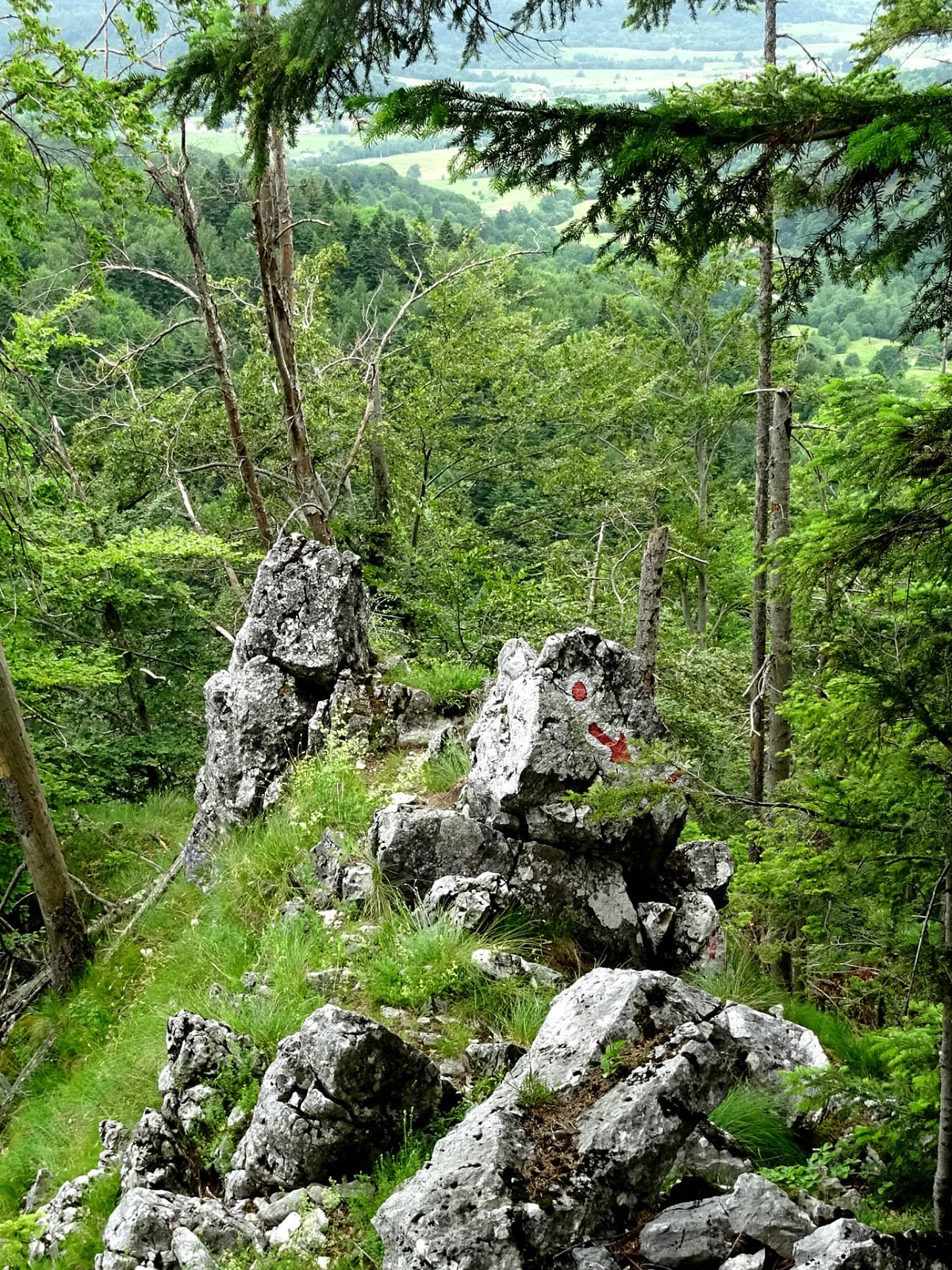 Hiking trail sign on a rock